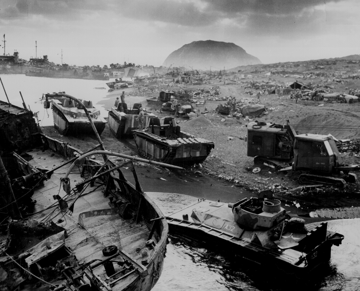 National Archives: 155. "Smashed by Japanese mortar and shellfire, trapped by Iwo's treacherous black-ash sands, amtracs and other vehicles of war lay knocked out on the black sands of the volcanic fortress." PhoM3c. Robert M. Warren, ca. February/March 1945. 26-G-4474. (ww2_155.jpg).